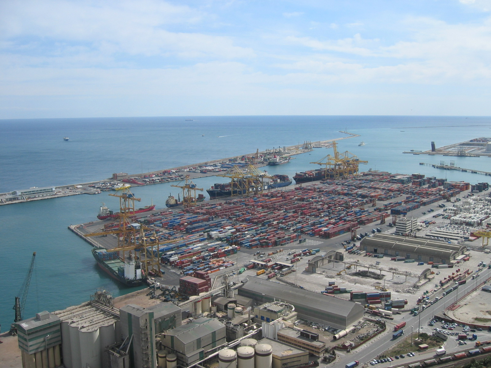 Barcelona Free Port; view from Montjuïc